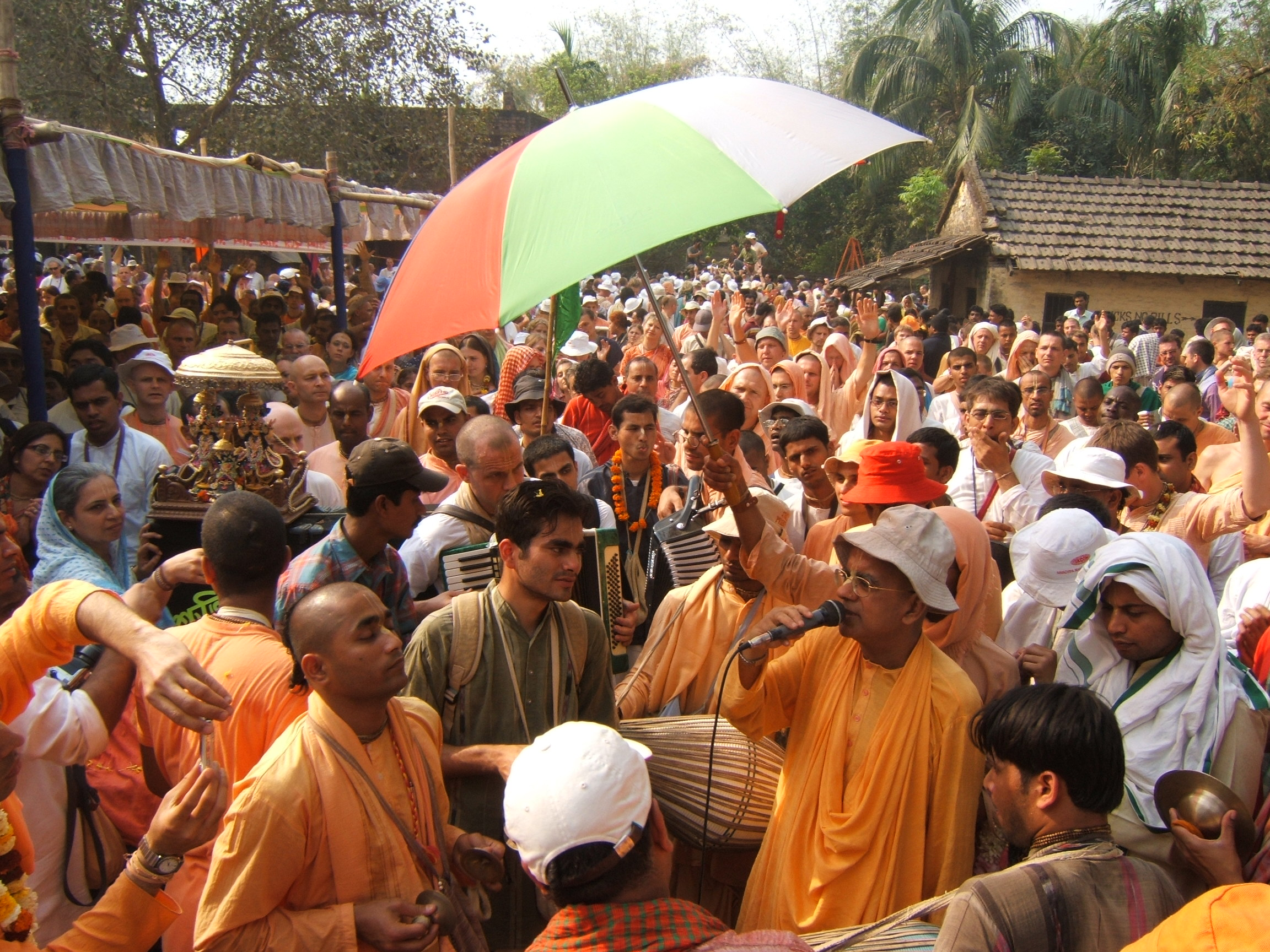 Kirtan led by Gopal Krishna Goswami at ISKCON Navadwip Mandala Parikrama 2008